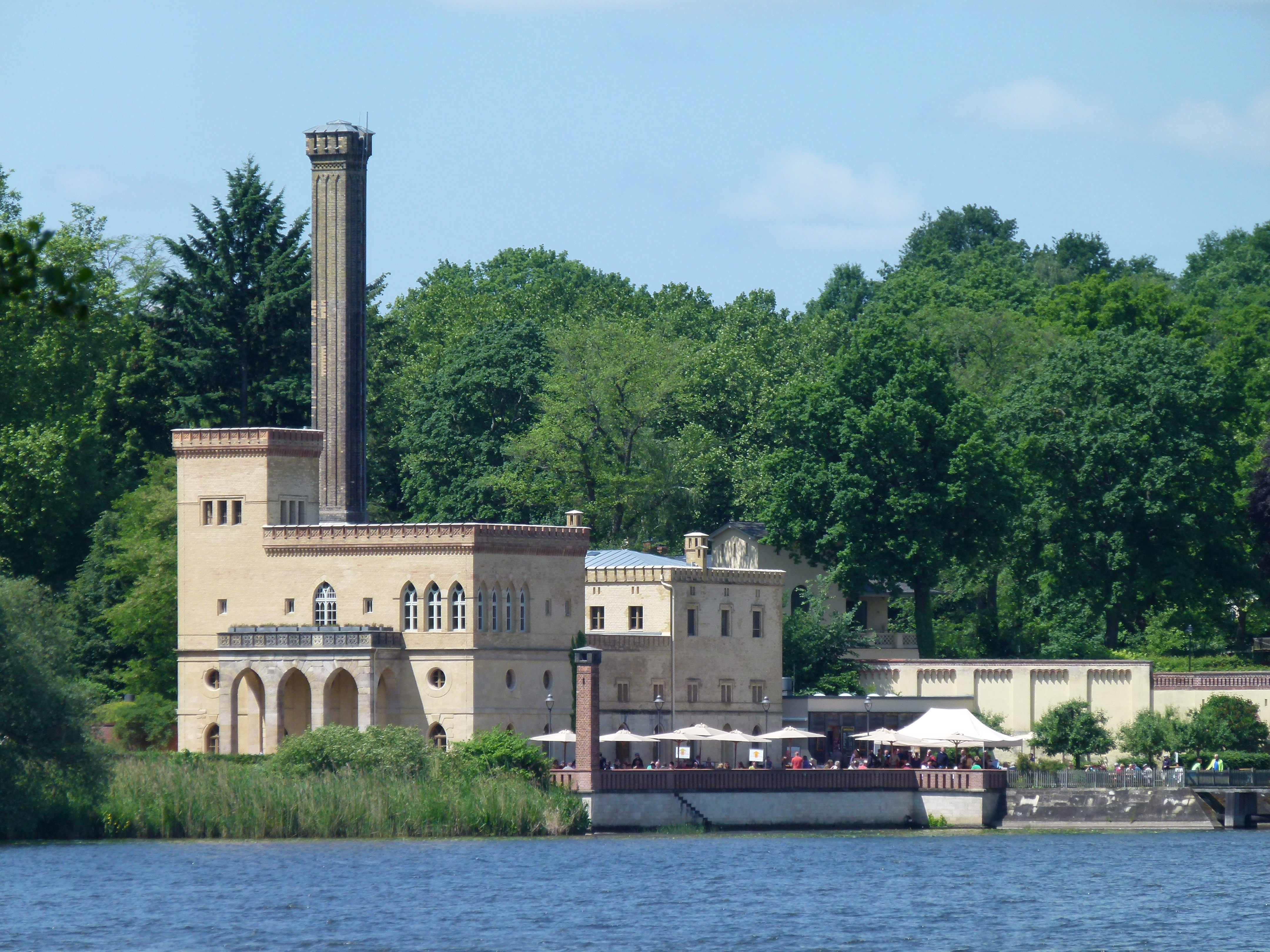 The Old Dairy-Farm on River Havel (Alte Meierei)